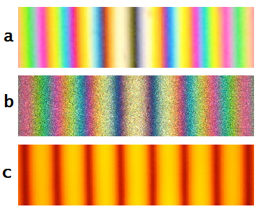 author: User:Stigmatella aurantiaca